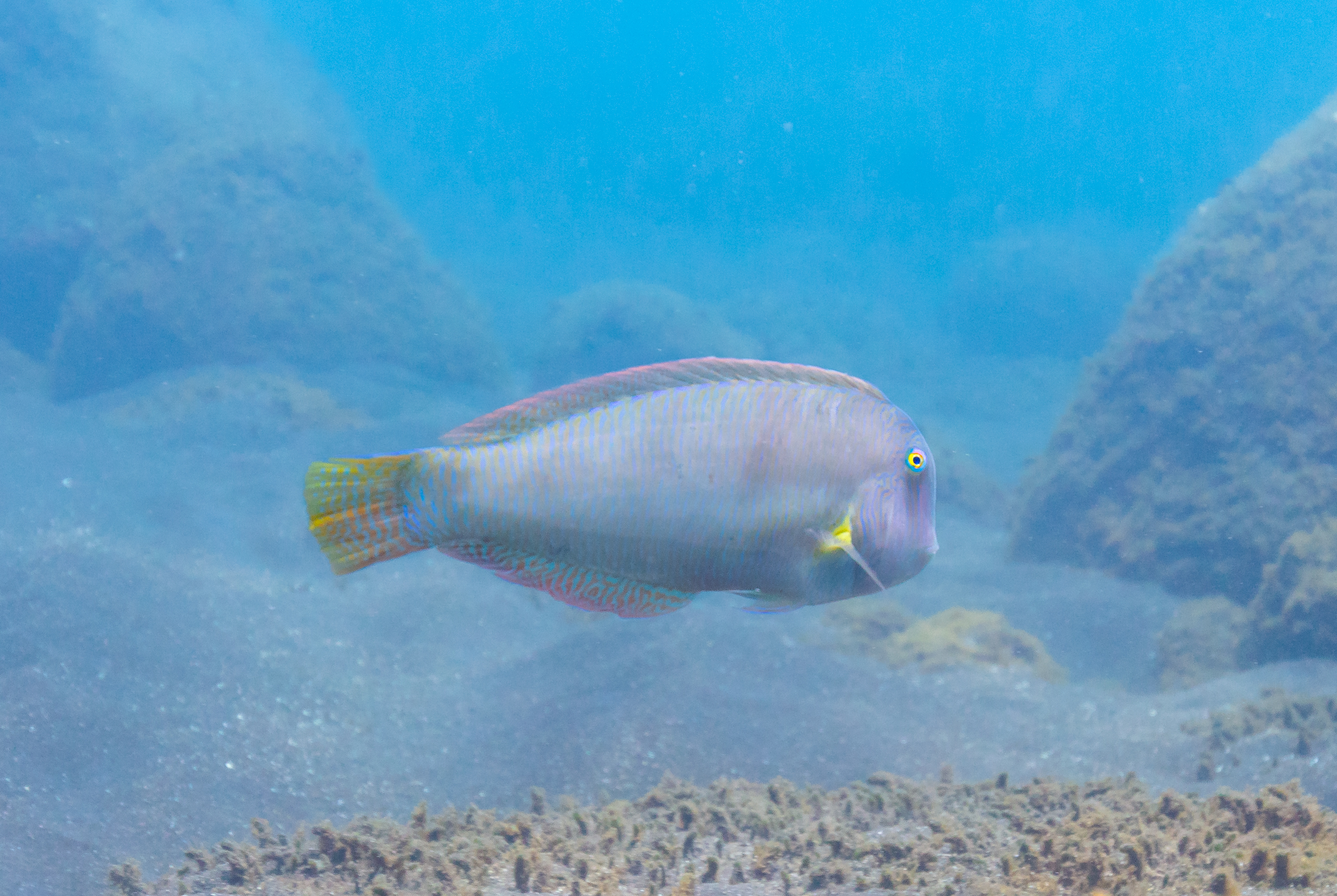 Pearly razorfish (Xyrichtys novacula), Madeira, Portugal